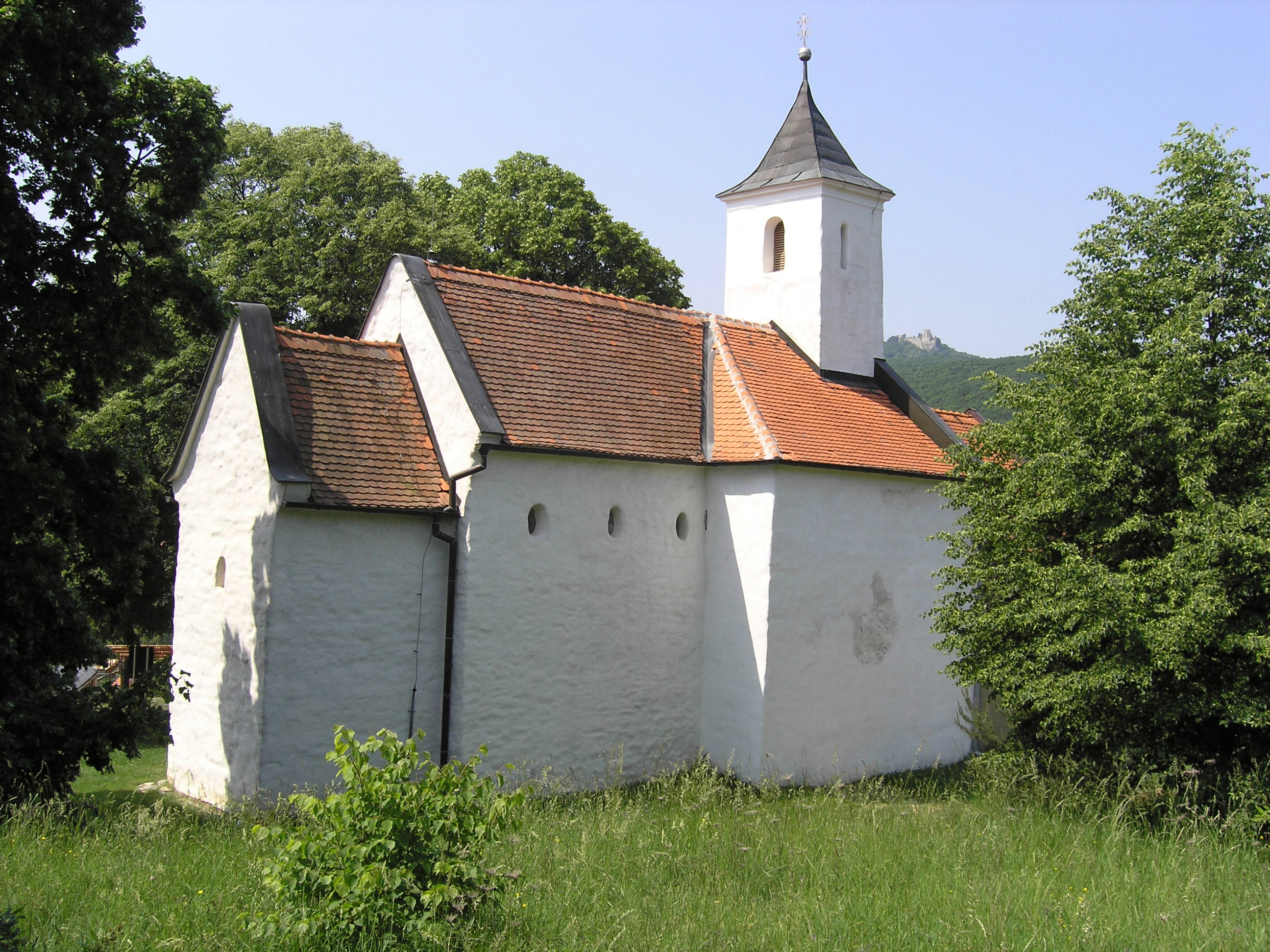 This medium shows the protected monument with the number 407-1452/1 in the Slovak Republic.